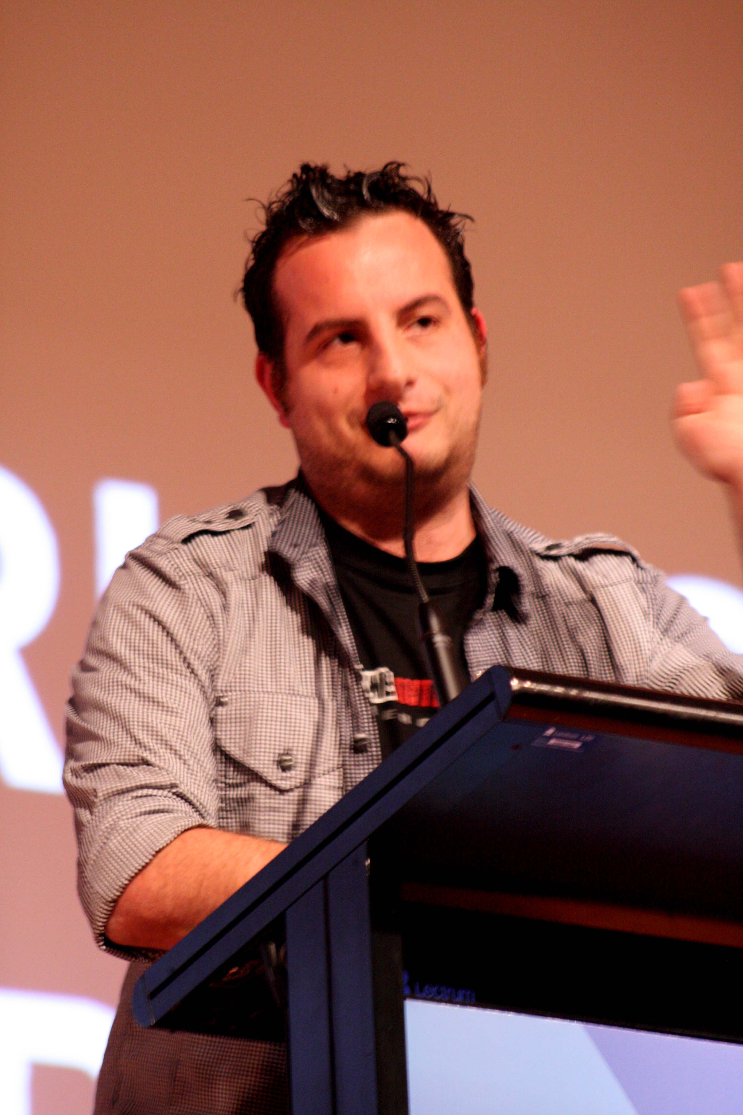 Dan Ilic makes his feeble attempt to greet the ladies - the lefty leaning ladies - at Sydney's Powershift 2009.